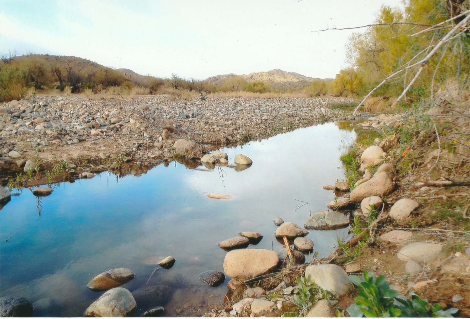 The Agua Fria River by the ghost town Gillett in Arizona.